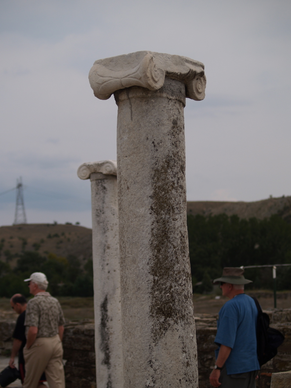 Roman city ruins Stobi Macedonia